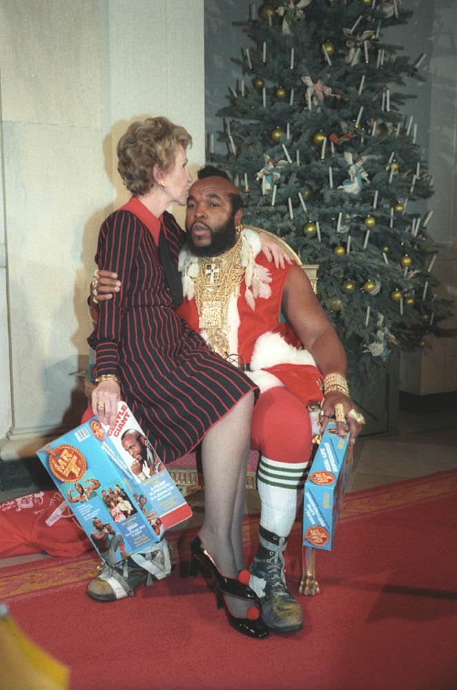 U.S. First Lady Nancy Reagan sitting on lap of actor Mr. T who is dressed as Santa Claus, seated in front of Christmas tree. Reagan kisses Mr. T's forehead. 1983. Original caption: Mrs. Reagan sitting on Santa Claus (Mr. T) lap after reviewing White House Christmas Decorations with the press. 12/12/83.